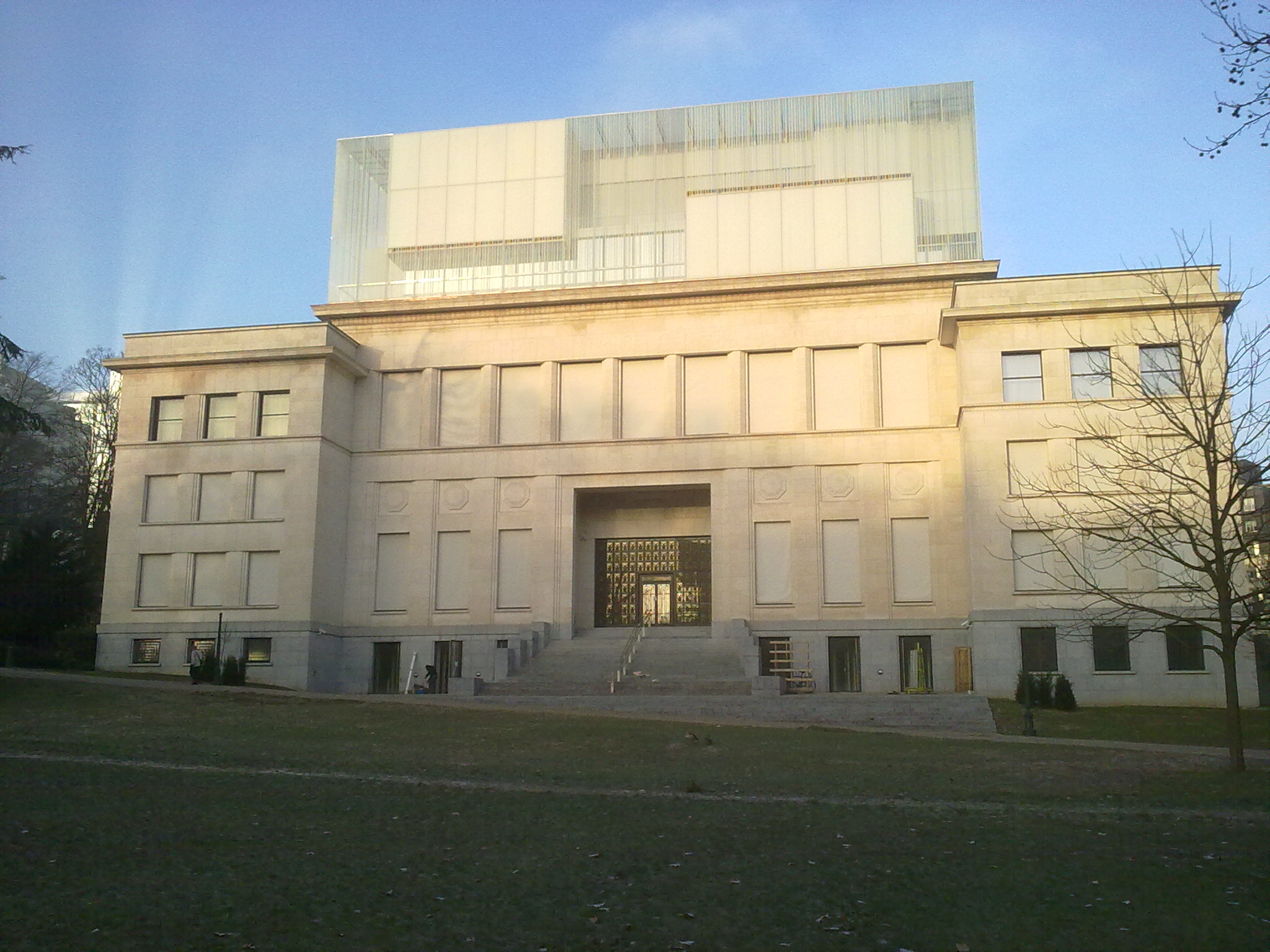 House of European History in Parc Leopold, Brussels